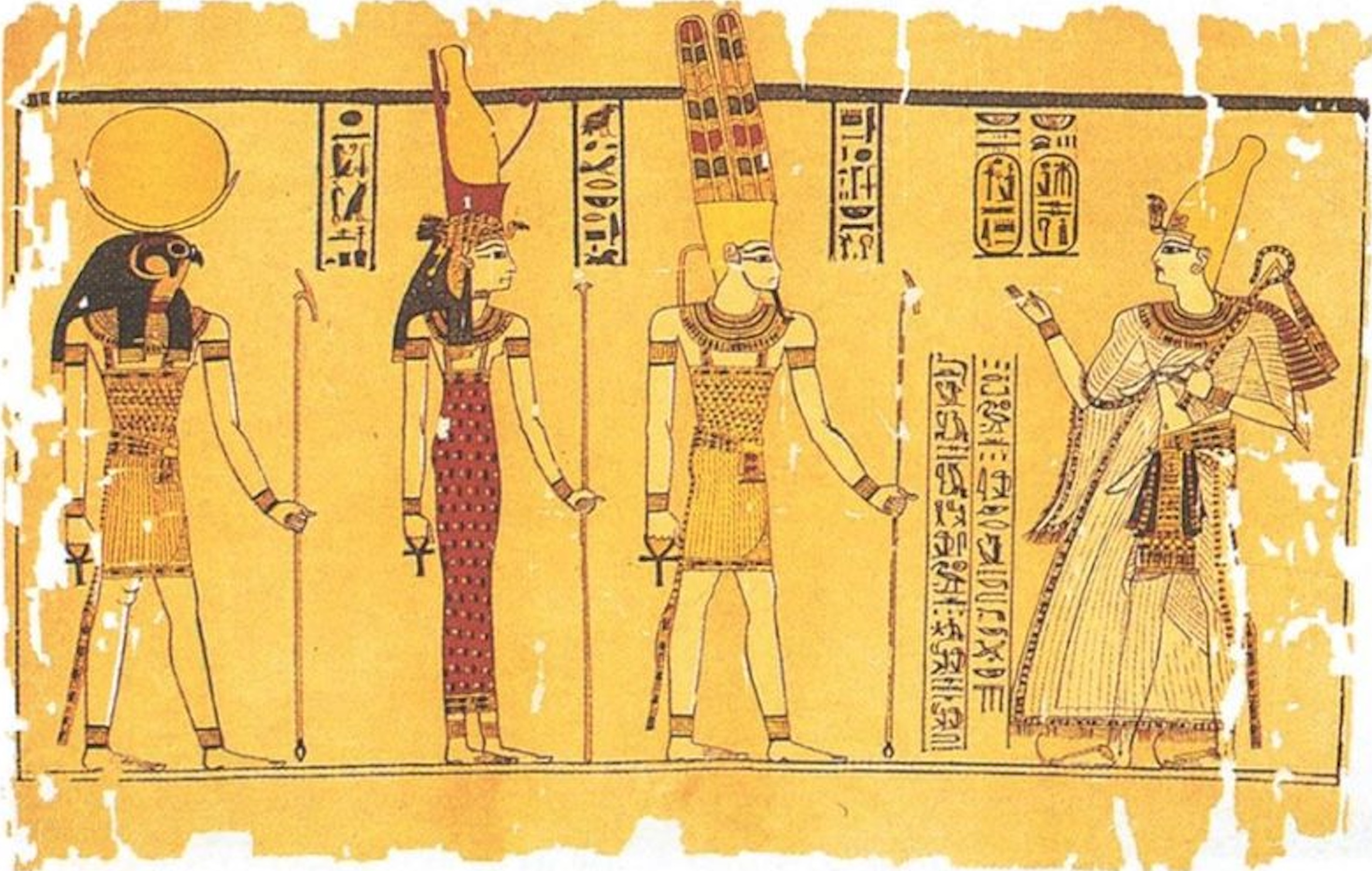 The Great Harris Papyrus, frame 2. Full colour vignette of Ramses III before Theban Triad; Discourse to the Gods; Thebes. British Museum. — Image extracted/scanned from the Taiwanese edition of The Search for Ancient Egypt (p. 91) by Jean Vercoutter, “Abrams Discoveries” and ‘New Horizons’ series, Abrams Books and Thames & Hudson, 1992. 中文（台灣）: 「拉美西斯三世與卡納克諸神交談，三位神祇分別爲阿蒙（Amon）、穆特（Mout）和孔蘇（Khonsou）。哈里斯紙莎草紙抄本繪畫。倫敦大英博物館。」——圖片來自「發現之旅」第2冊《古埃及探祕：尼羅河畔的金字塔世界》第91頁，插圖說明位於此書第210頁。Jean Vercoutter/著，時報出版，1994年5月31日。